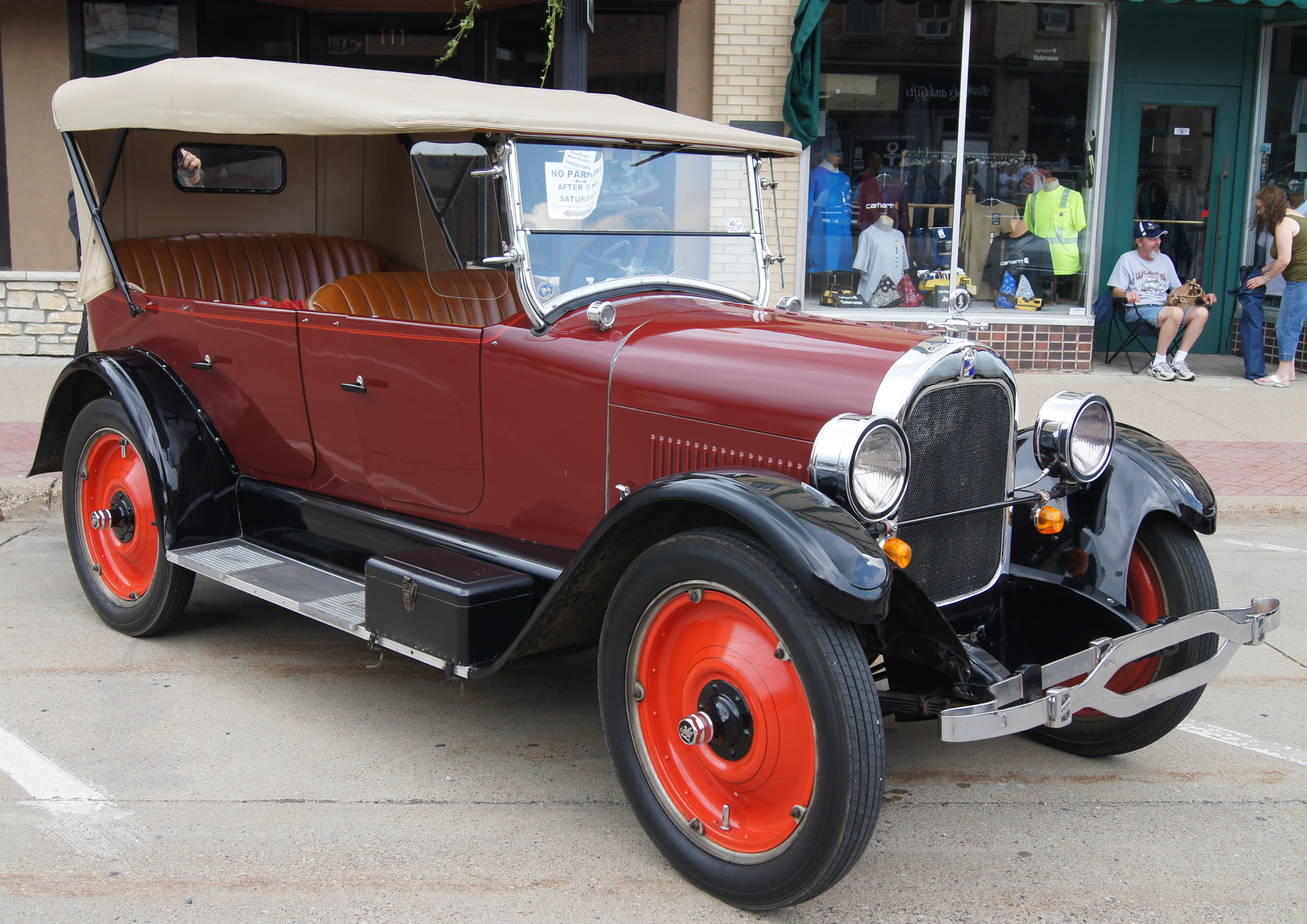 1923 Durant A-22 touring car 9th Annual Saturday Night Cruise-In, June 28, 2014, Hastings, Minnesota